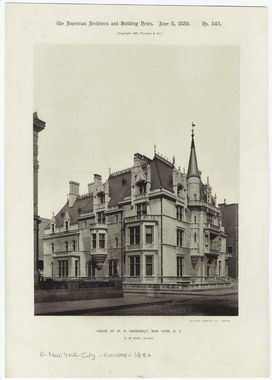 Home of William Kissam Vanderbilt, Fifth Avenue, New York City, June 5, 1886. Home later demolished. Architect Richard Morris Hunt.